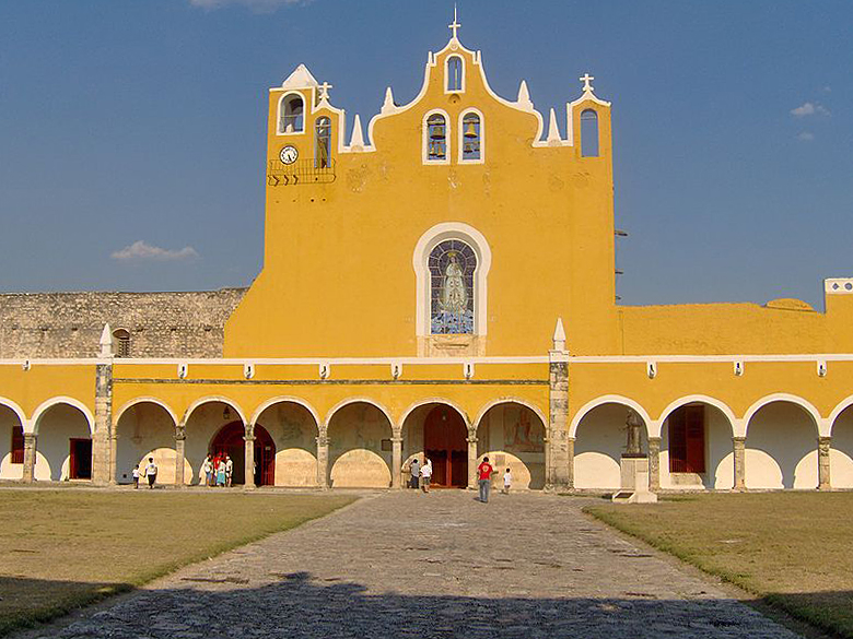 The Convento De San Antonio De Padua at Izamal, Yucatan, Mexico.